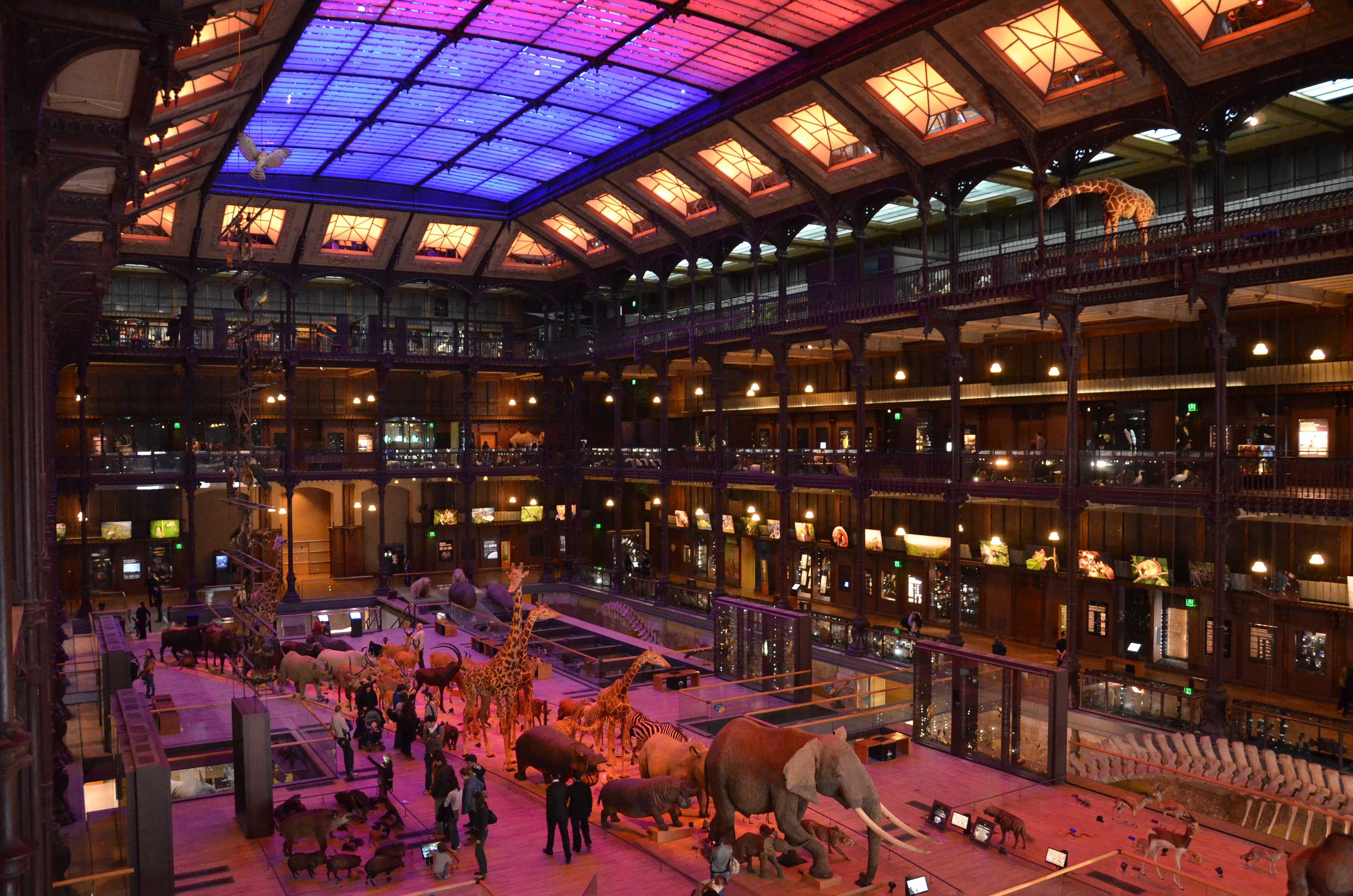 This is a view of the main central space inside the grande galerie de l'Évolution (called in English the Gallery of Evolution) of the French National Museum of Natural History, in Paris (France).